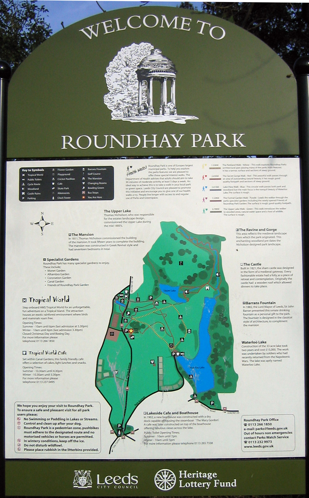 Roundhay Park Sign, Leeds, UK 2007